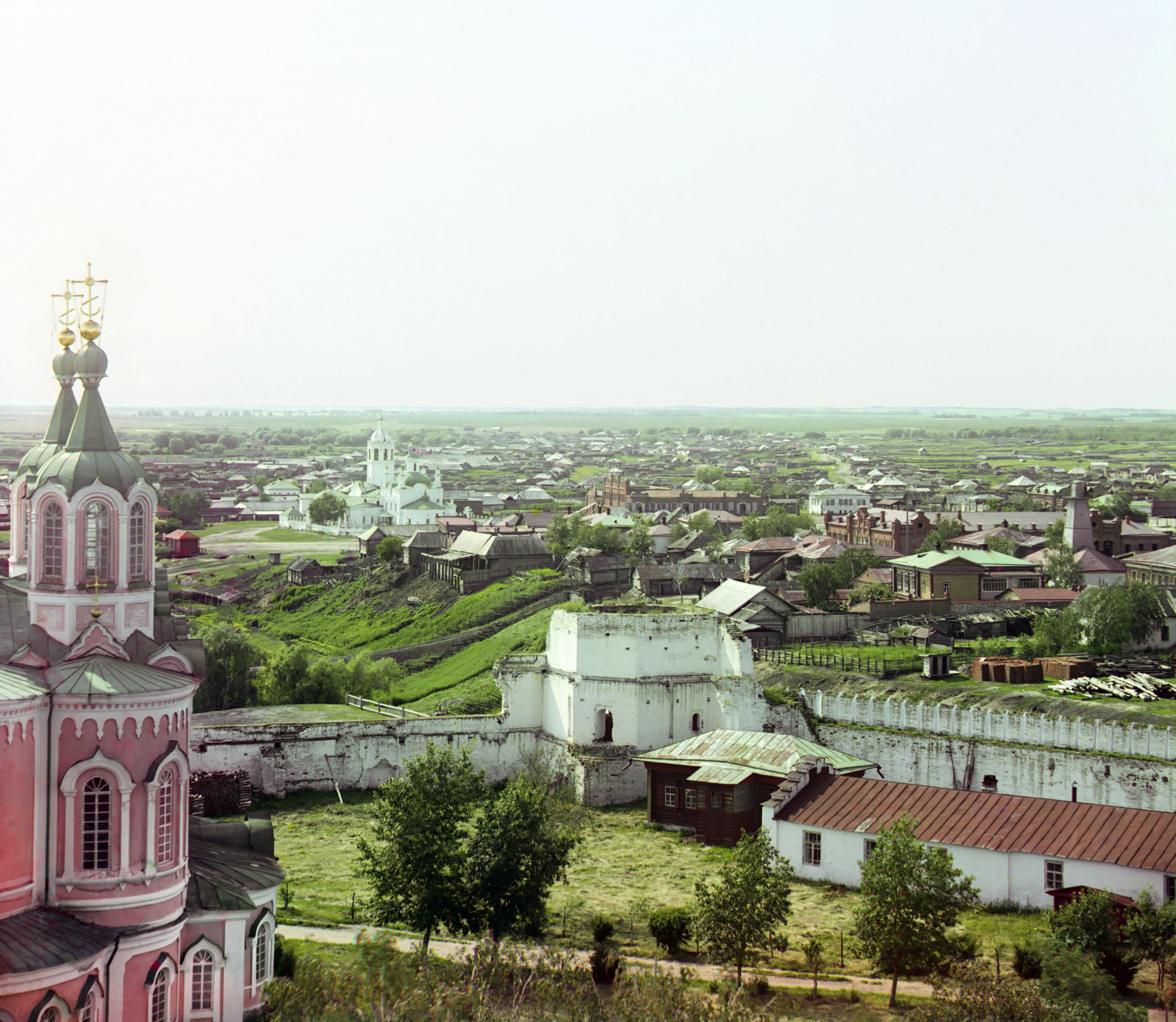 Original Description: City of Dalmatov. View of the western section from the monastery's bell tower.